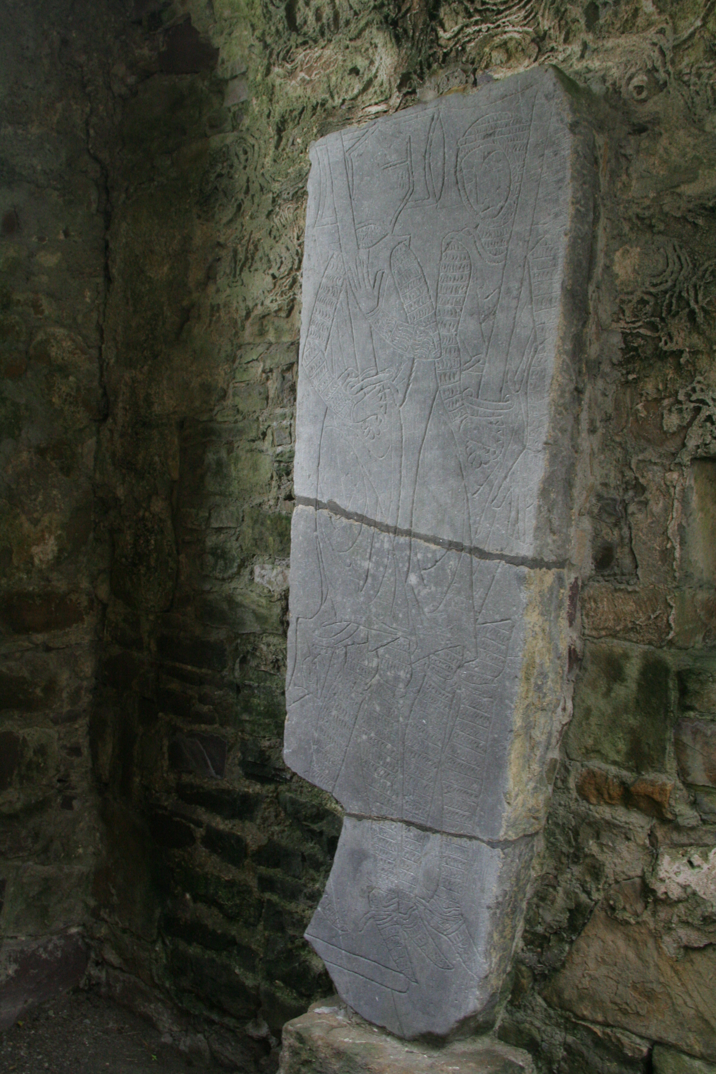 The Brethren